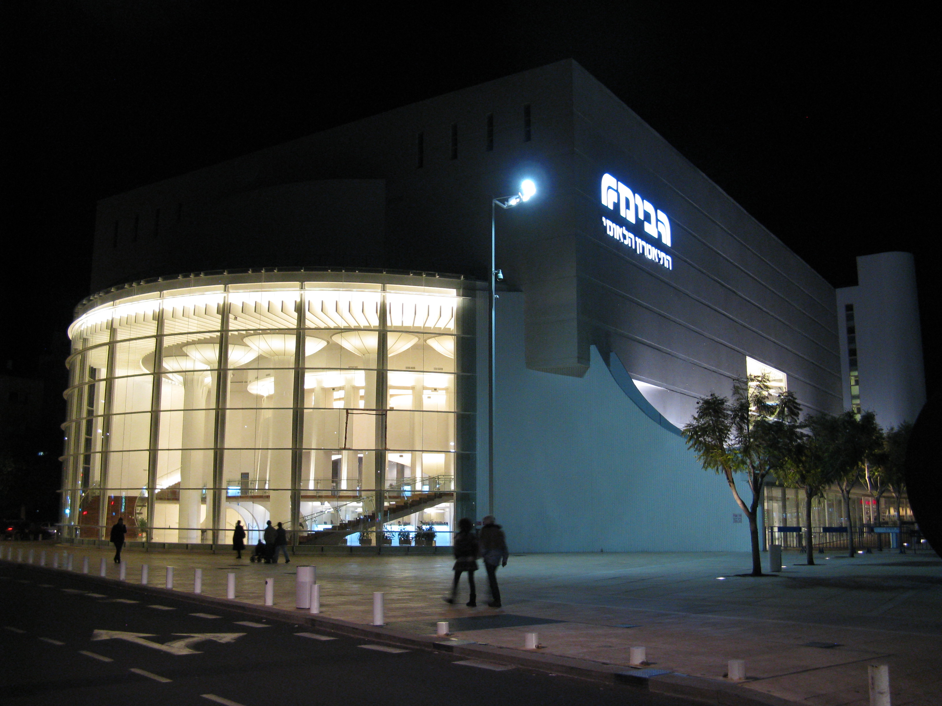 Habima Theatre building in Tel Aviv, Original building by architect Oskar Kaufmann, renovatiion by architect Ram Karmi.